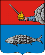 Onega (Arkhangelsk oblast), coat of arms (1780)